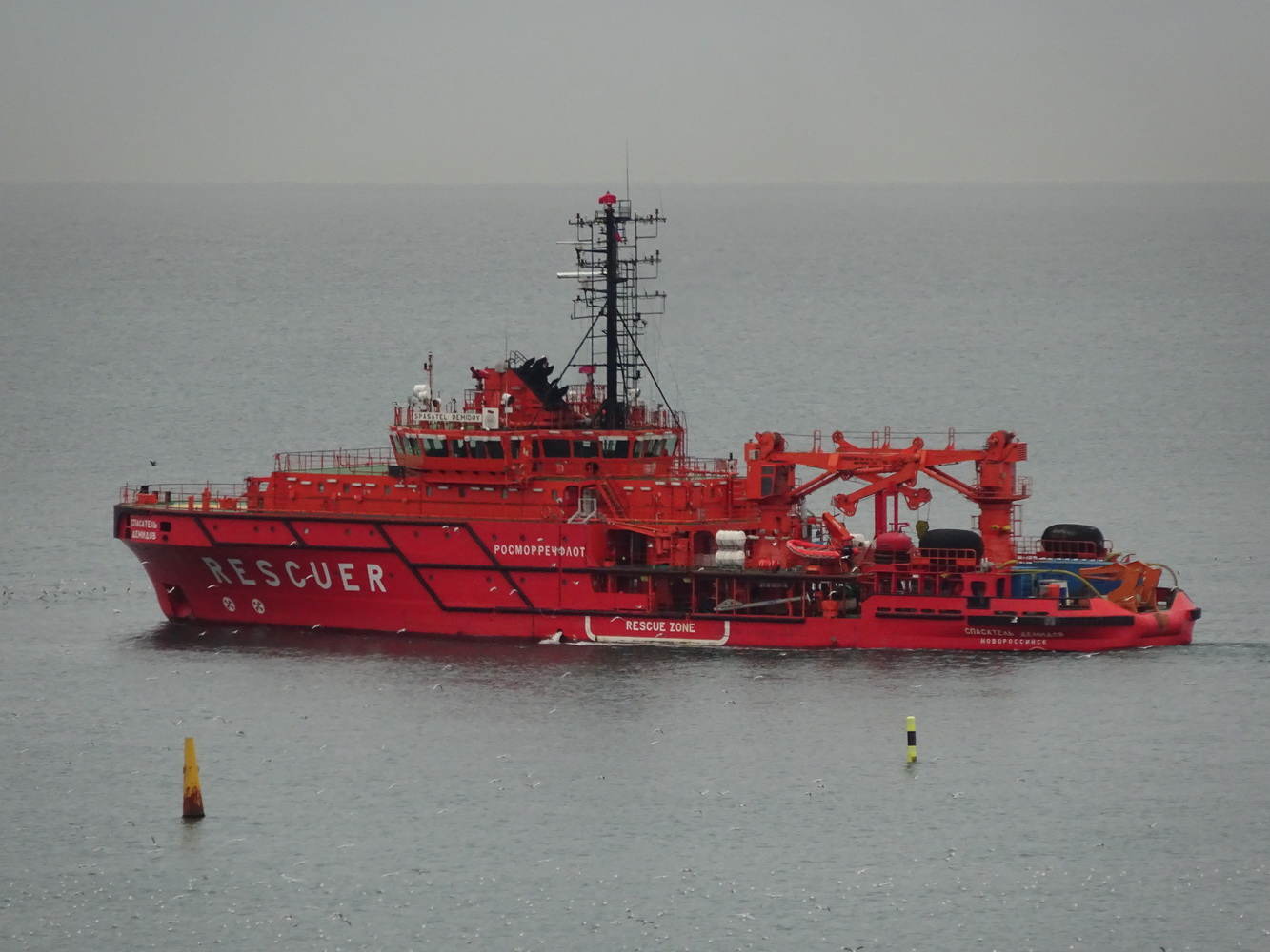 Spasatel Demidov in Sochi, Black Sea, Krasnodar Krai 29 December 2016